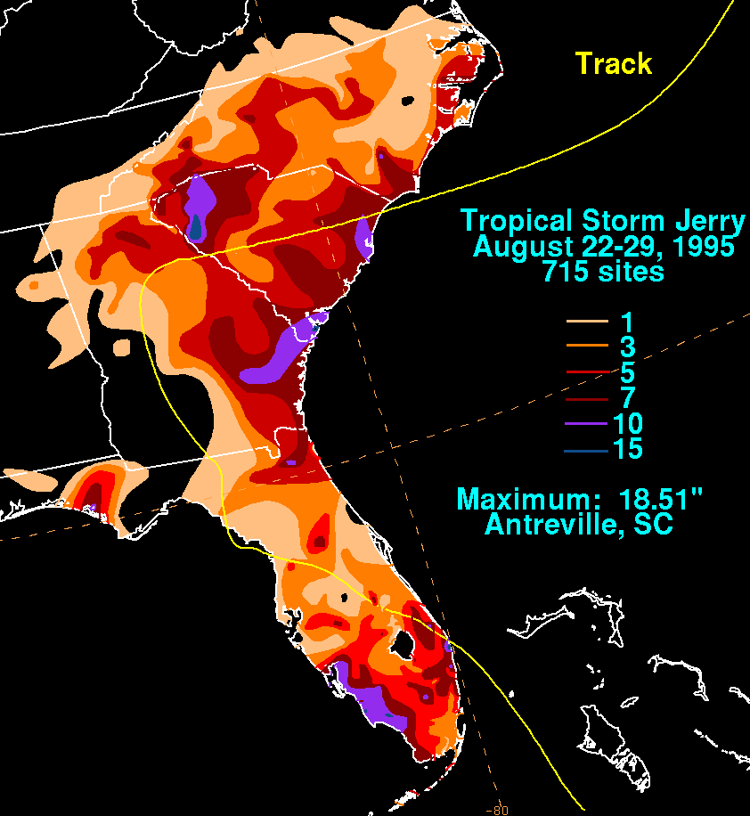 Rainfall produced by Tropical Storm Jerry during August 1995.